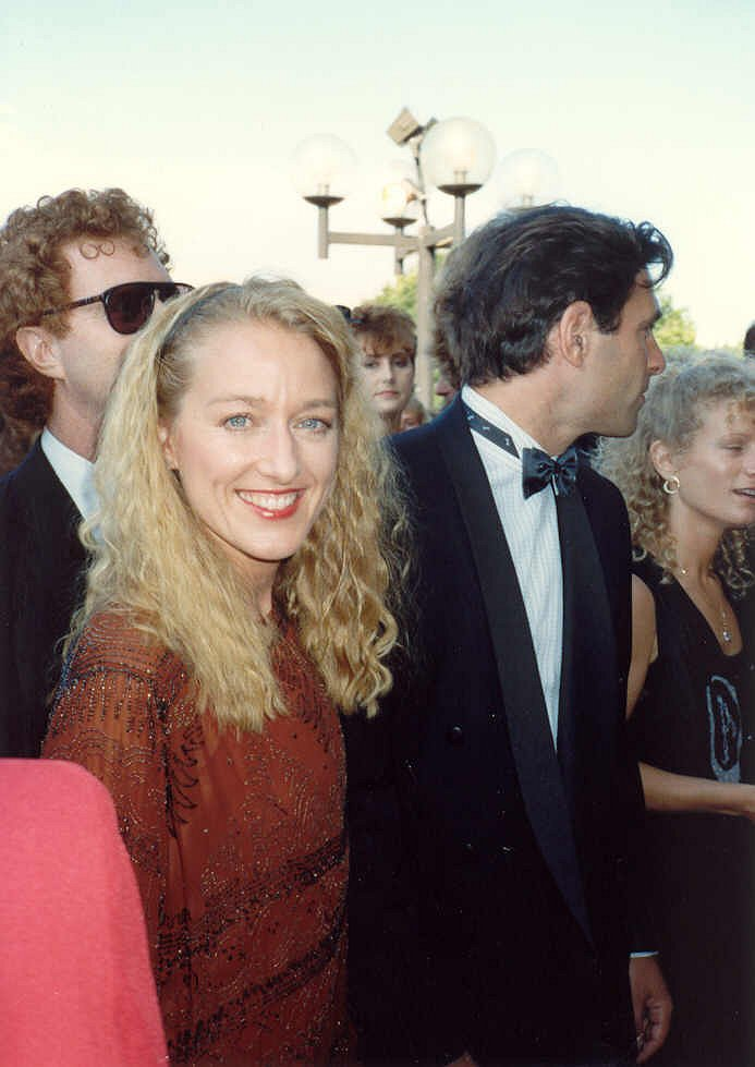 Patricia Wettig at the 41st Annual Emmy Awards